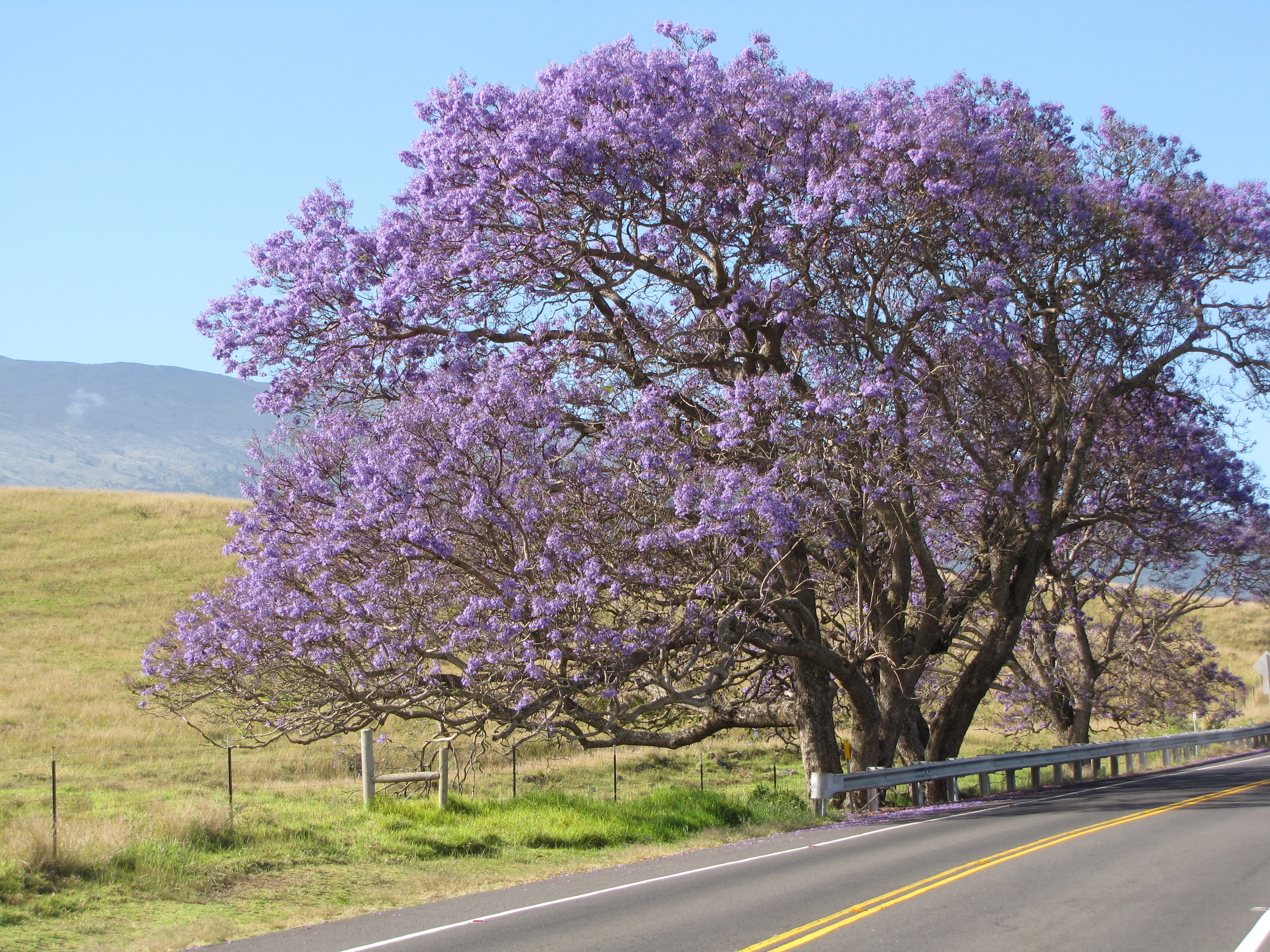 Jacaranda mimosifolia (Jacaranda) Flowering habit and road at Kula, Maui, Hawaii. May 05, 2010 #100505-5986 Image Use Policy